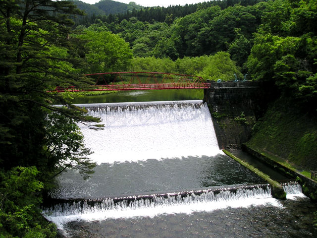 Fujikura Reservoir Dam